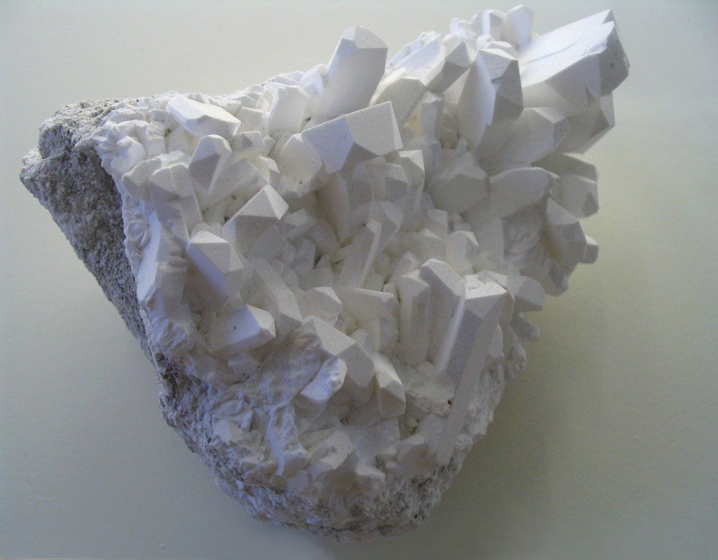 Borax crystals from Kramer, California, USA. Photograph taken at the Natural History Museum, London.